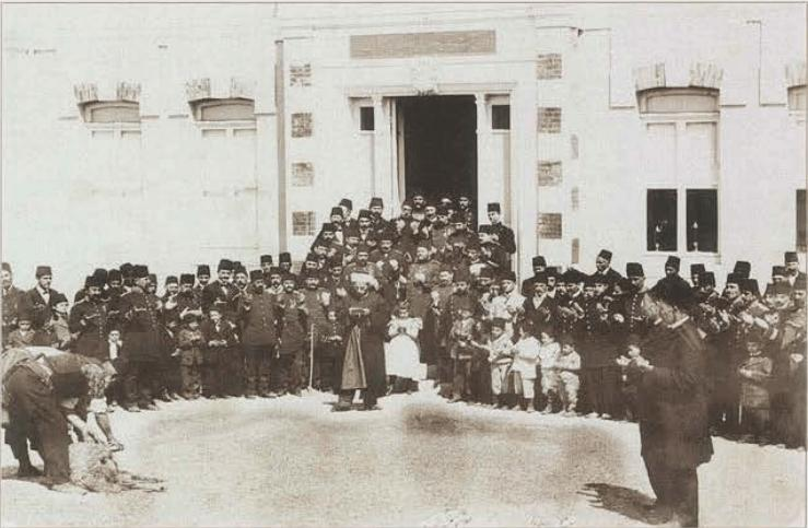 Opening ceremony of Hamidiye Etfal Hospital.